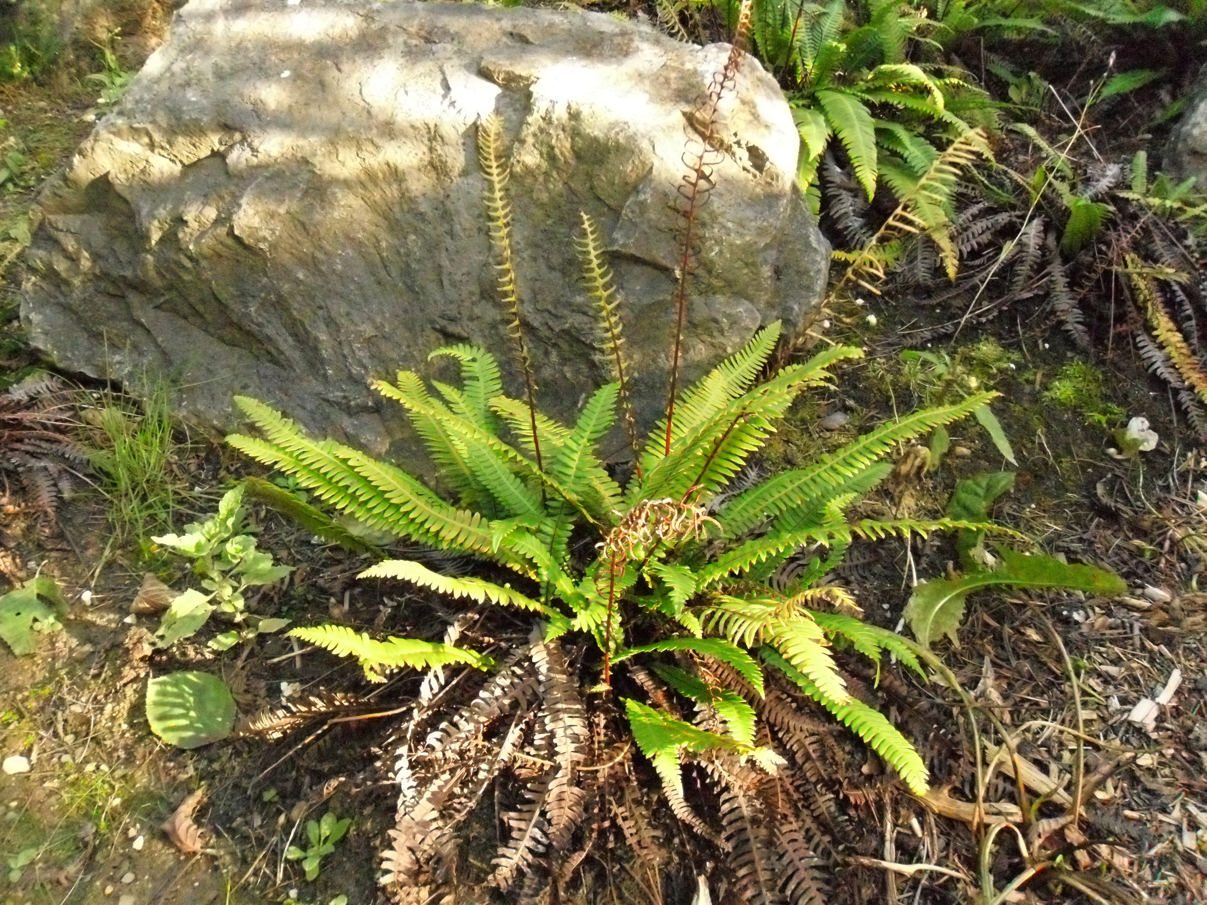 Blechnum spicant in a botanical garden maintained by the University of Düsseldorf.